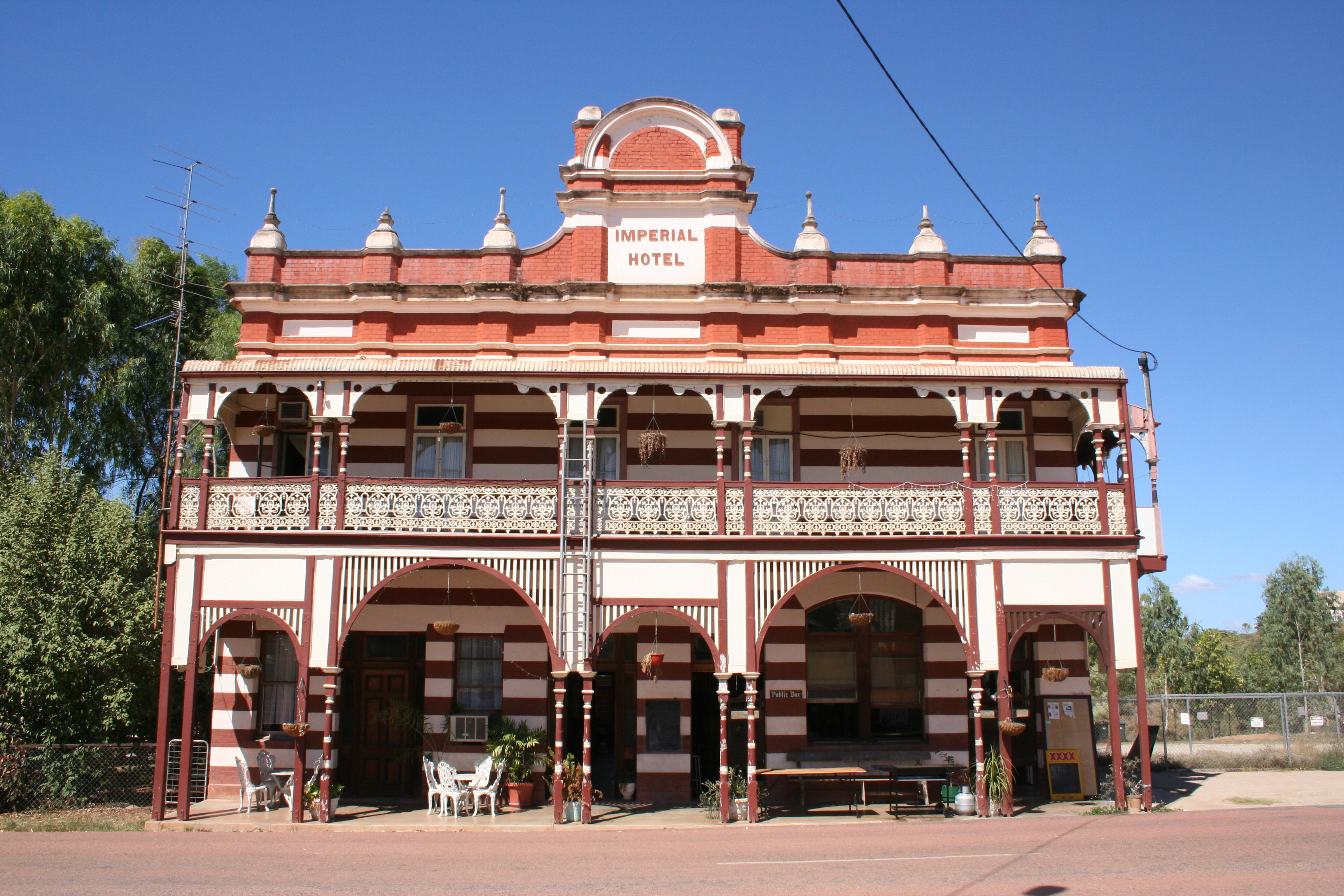 Imperial Hotel in Ravenswood, outback Queensland in Australia.